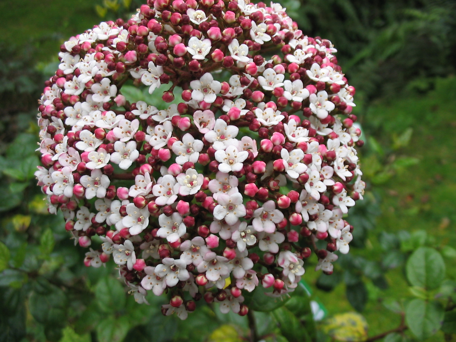 Lorbeer-Schneeball (Viburnum tinus ssp. subcordatum) - Flower